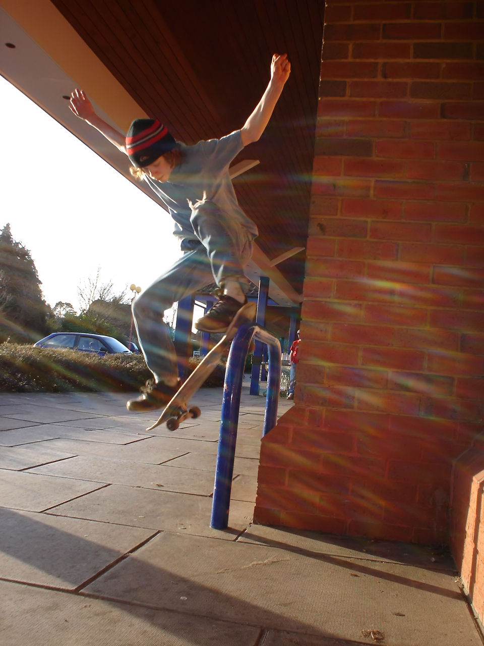 tommy does a strange nose tap thing on rainbows blue rail